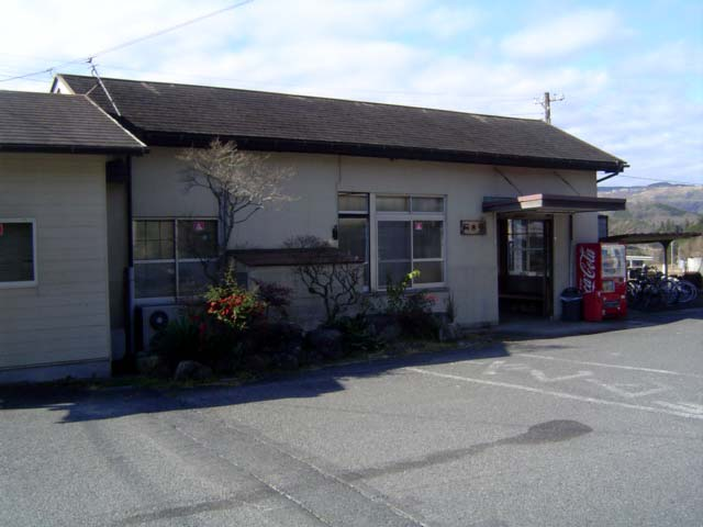 Akechi Railway Agi Station